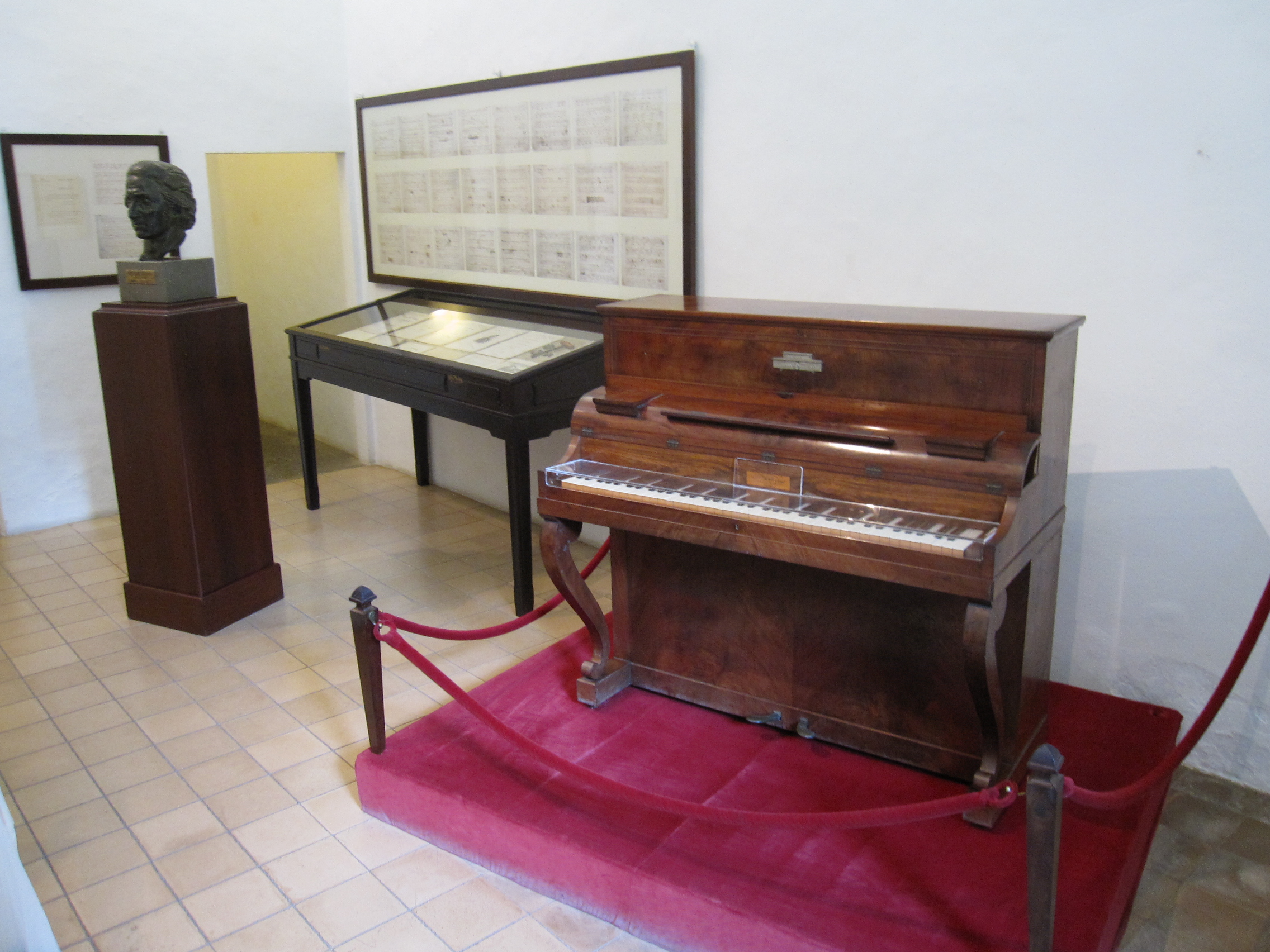 Cell No. 4 in Valldemossa with Chopin's piano C. Pleyel.